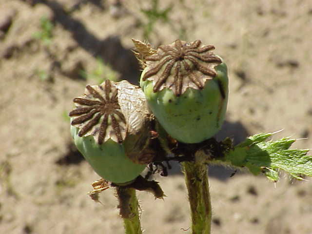 Species: Papaver bracteatum (not P. orientale) Family: Papaveraceae Image No. 1